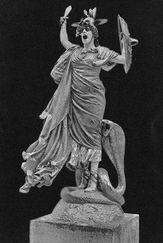 Image of Enyo the Goddess.